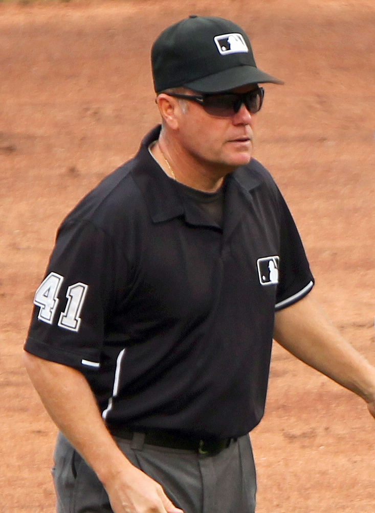 MLB umpire Jerry Meals - Yankees at Orioles September 8, 2011